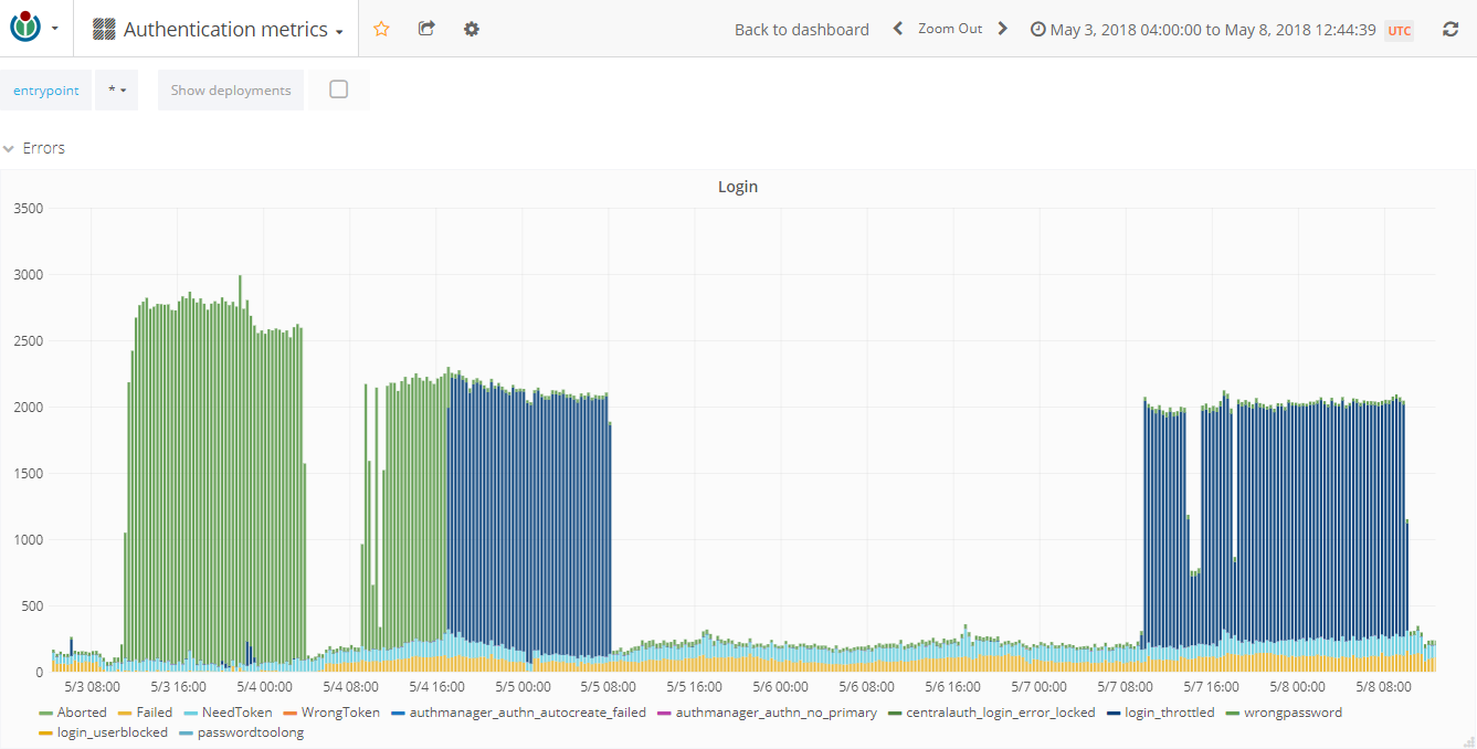 A graph depicting the mass attempts to break into Wikimedia user accounts on May 3, May 4–5, May 6, and May 7–8, 2018. The mass-hacking attempts came in four waves, with around 15,000 attempted account break-ins per hour in the first wave, and at least 11,400 attempted break-ins per hour in the second wave. On May 6, there was a much smaller attack, before the mass account-breaking attacks resumed on May 7. In the fourth and final wave of attacks, there were around 10,500 account-breaking attempts per hour from May 7 to 8. Over 642,000 accounts may have experienced at least one hacking attempt.